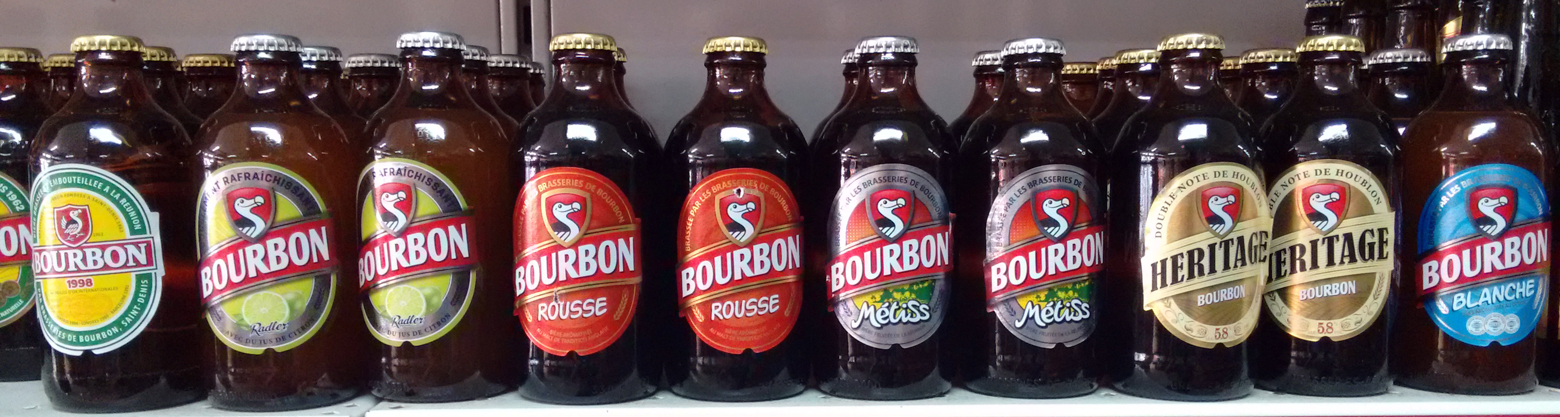 Bourbon beer (Dodo), Réunion Island